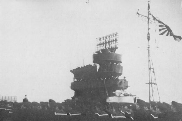 Bridge of Japanese aircraft carrier Zuikaku, with 21-GO radar on the top of it.